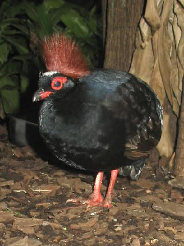 Description: Crested Wood Partridge - Source: own work - Location: Central Park Zoo, New York - Author: self, User:Stavenn